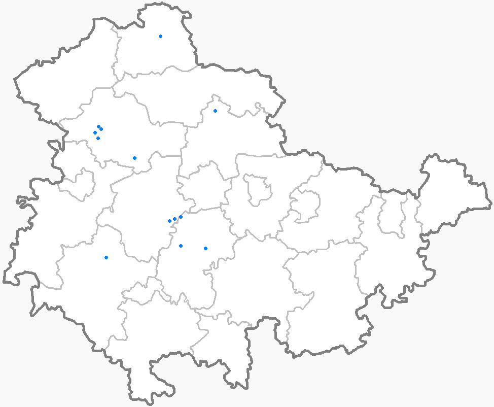 Approximate location of karst springs in Thuringia (Germany). The file shows karst springs are listed in the "List of karst springs in Germany" in the german Wikipedia. For questions and suggestions contact the author. Country border District border Karst spring